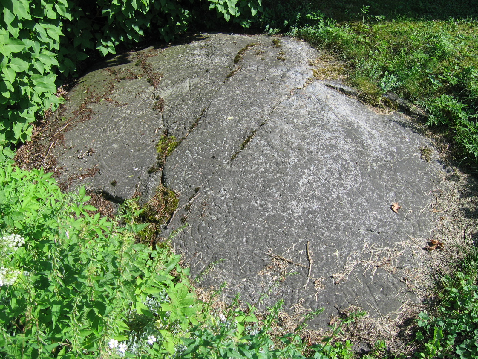 Runestone, Uppland, Sweden